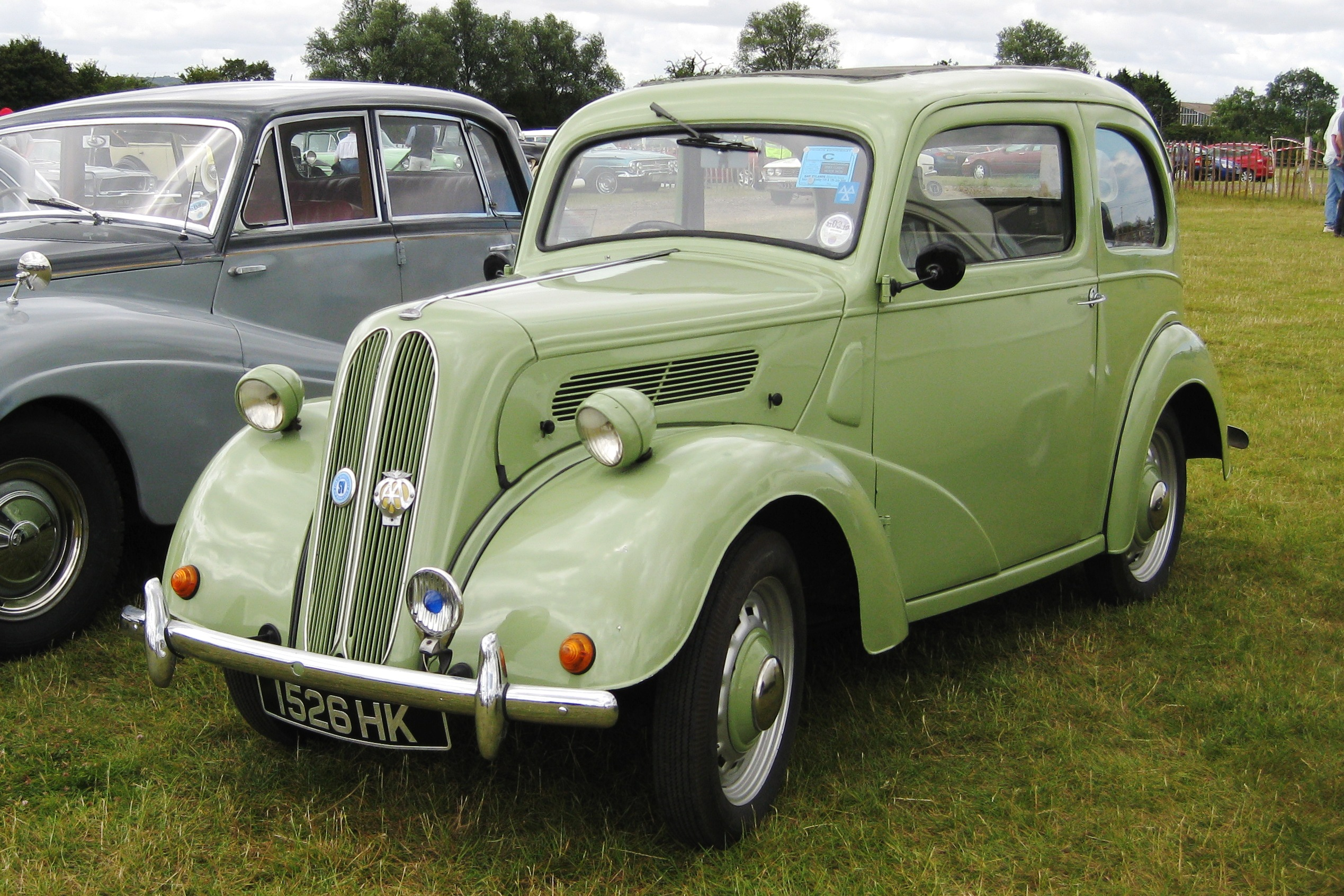 Ford Popular manufactured 1957